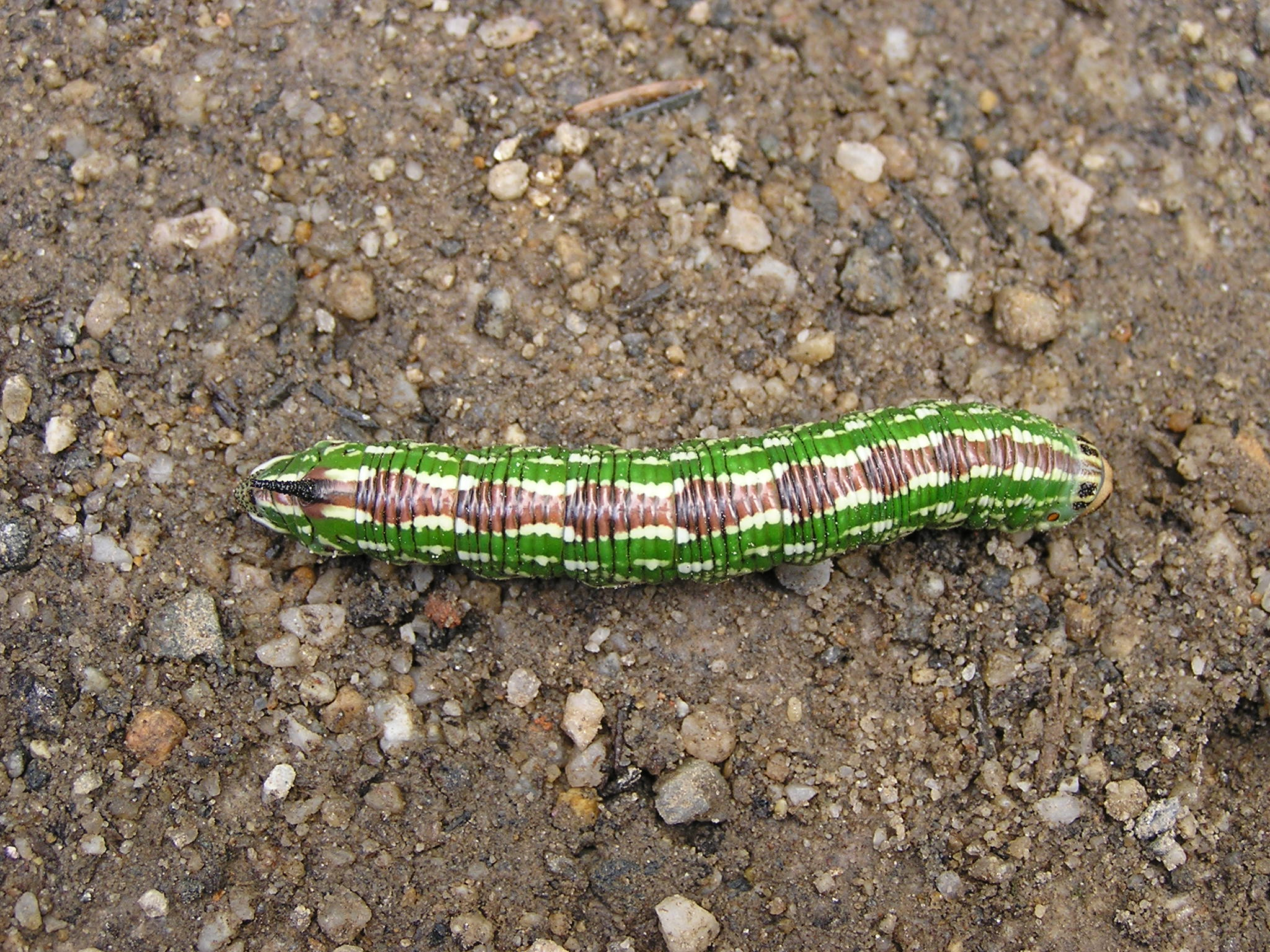 Caterpillar of Sphinx pinastri